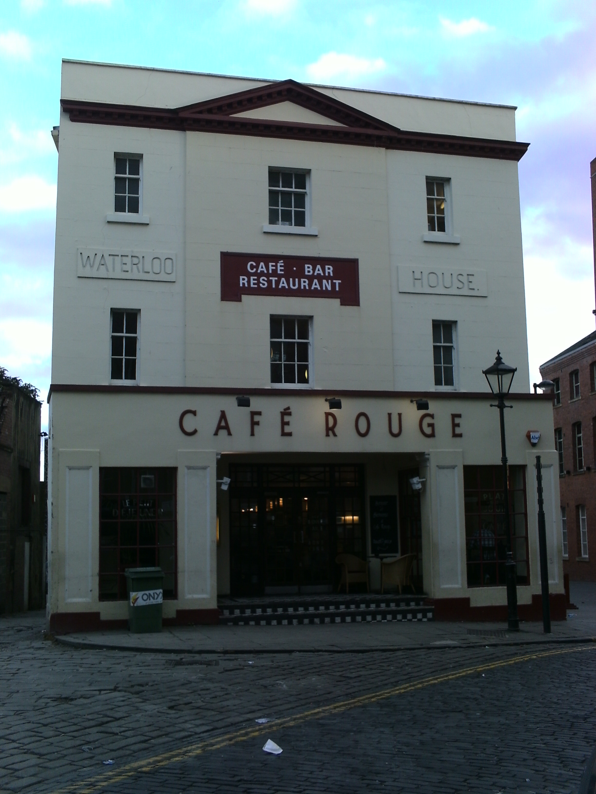 Cafe Rouge behind the Corn exchange in Leeds, UK.